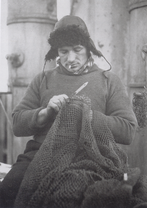 John Vincent, crew member of Endurance